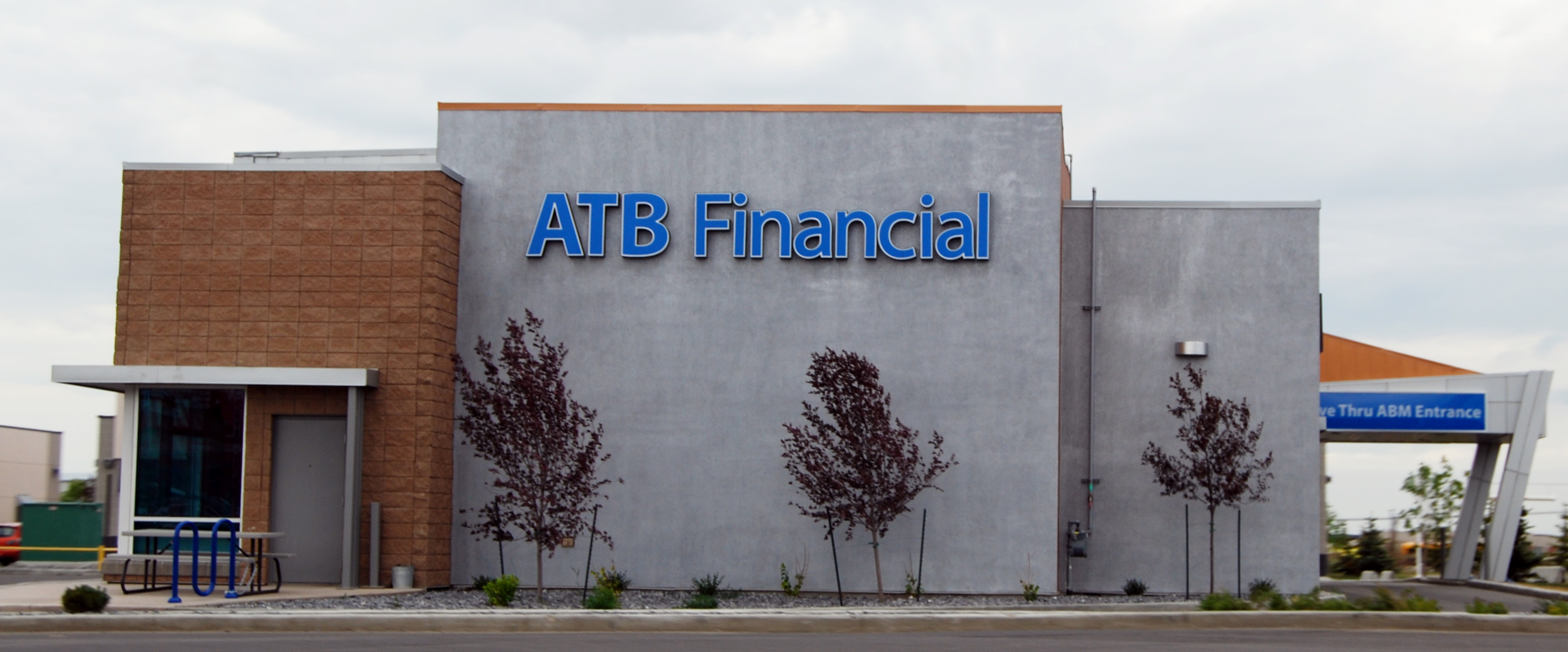 I, Myke Waddy took this photo, South Edmonton, Alberta Canada.